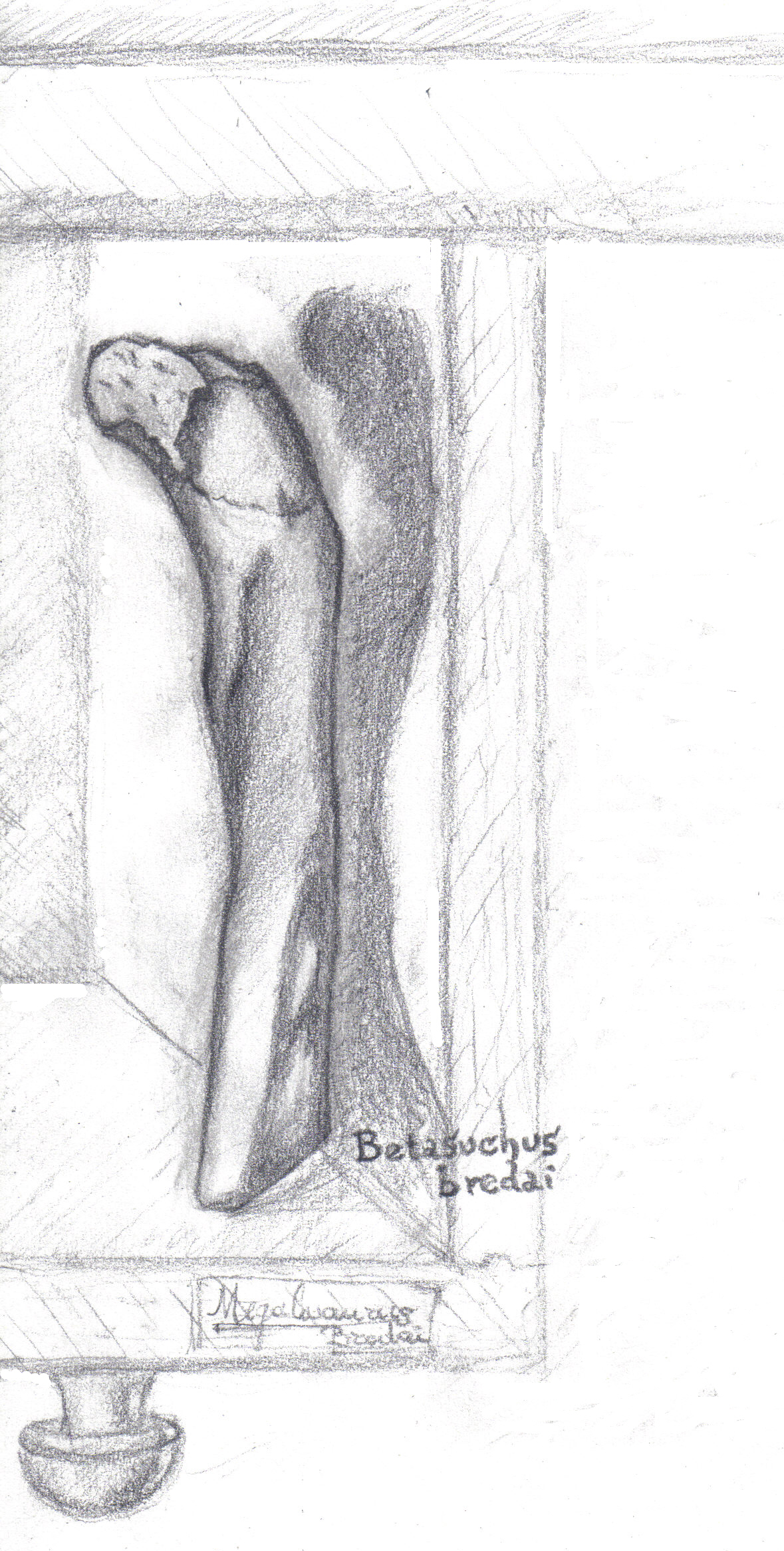 Pencil drawing of the holotype of the dinosaur Betasuchus